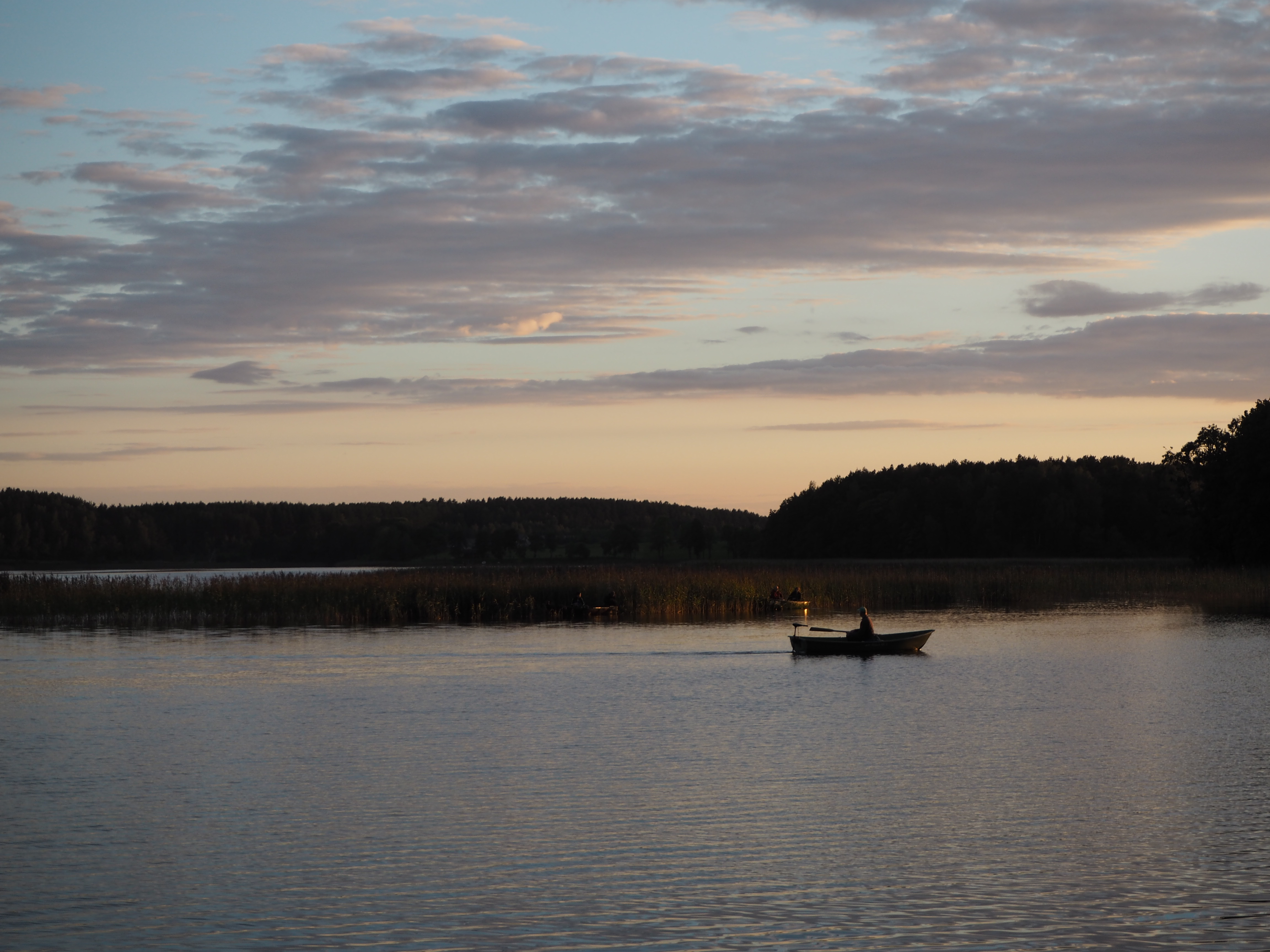 Fishermen in Siesartis Lake, Molėtai District Municipality